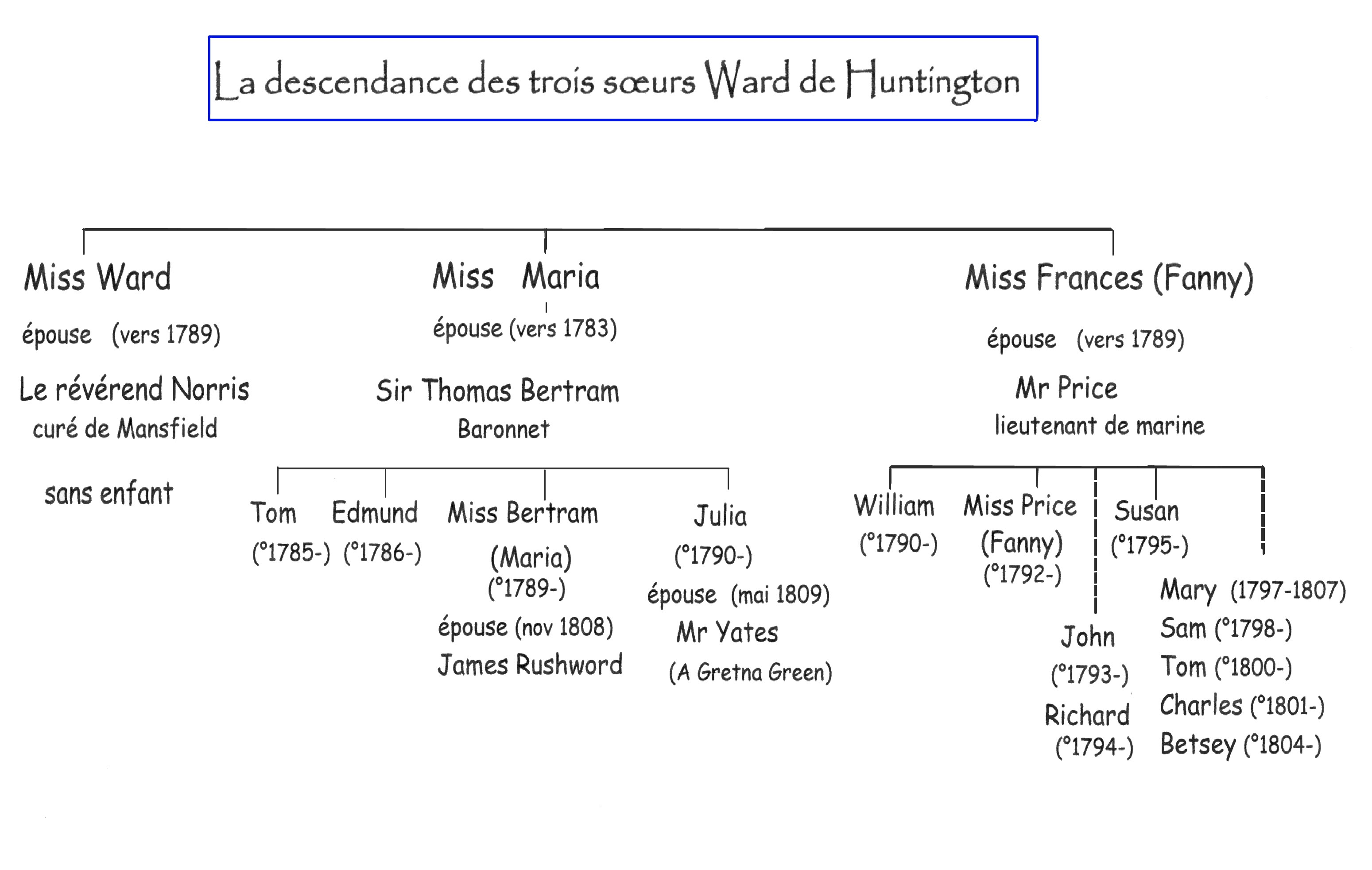 The children of Miss Maria Ward, baronet's Lady, and Miss Frances Ward, married with "a Lieutenant of Marines, without éducation, fortune or connections"